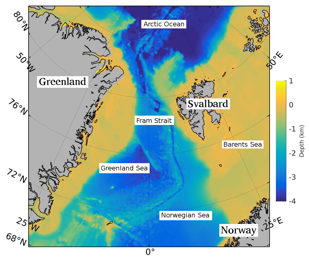 Fram Strait is located between Svalbard and Greenland. The Greenland Sea is to the south of Fram Strait, while the Arctic Ocean is to the north. Fram Strait is the only deep passage between the Arctic and World Oceans. Azimuthal Equal Area projection.